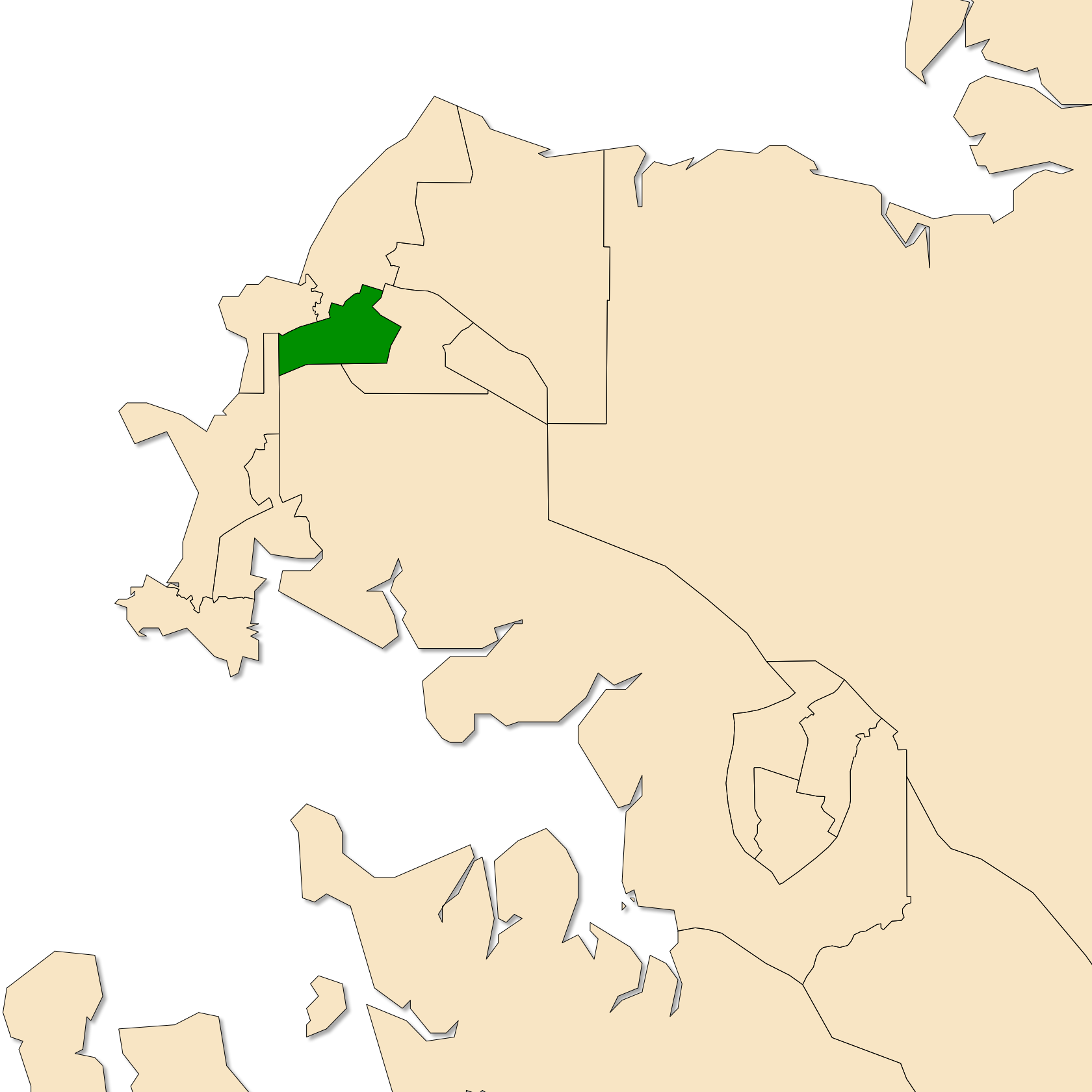 Location of the electoral division of Johnston in the Darwin/Palmerston area, Northern Territory, Australia.